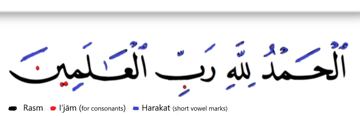 Example of the different elements of Arabic script -- Rasm, I‘jām and Harakat